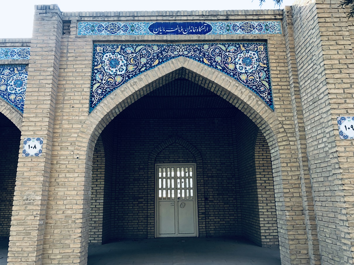 Farmanfarmayan Tomb